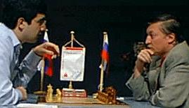 Vladimir Kramnik - Anatoly Karpov, Chess Days 1999 at Dortmund